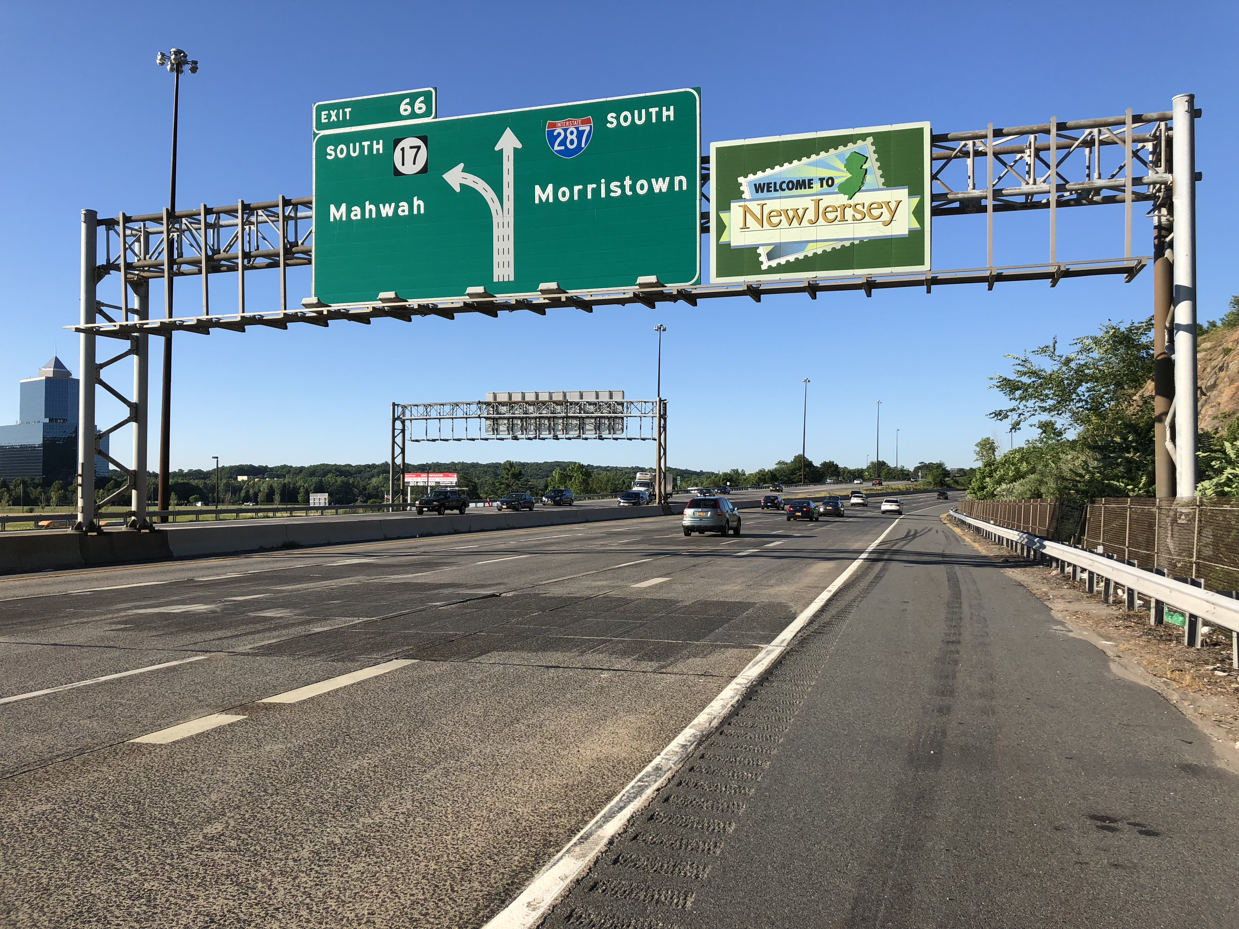 View south along Interstate 287 and New Jersey State Route 17 just north of Exit 66 (SOUTH New Jersey State Route 17, Mahwah) in Mahwah Township, Bergen County, New Jersey